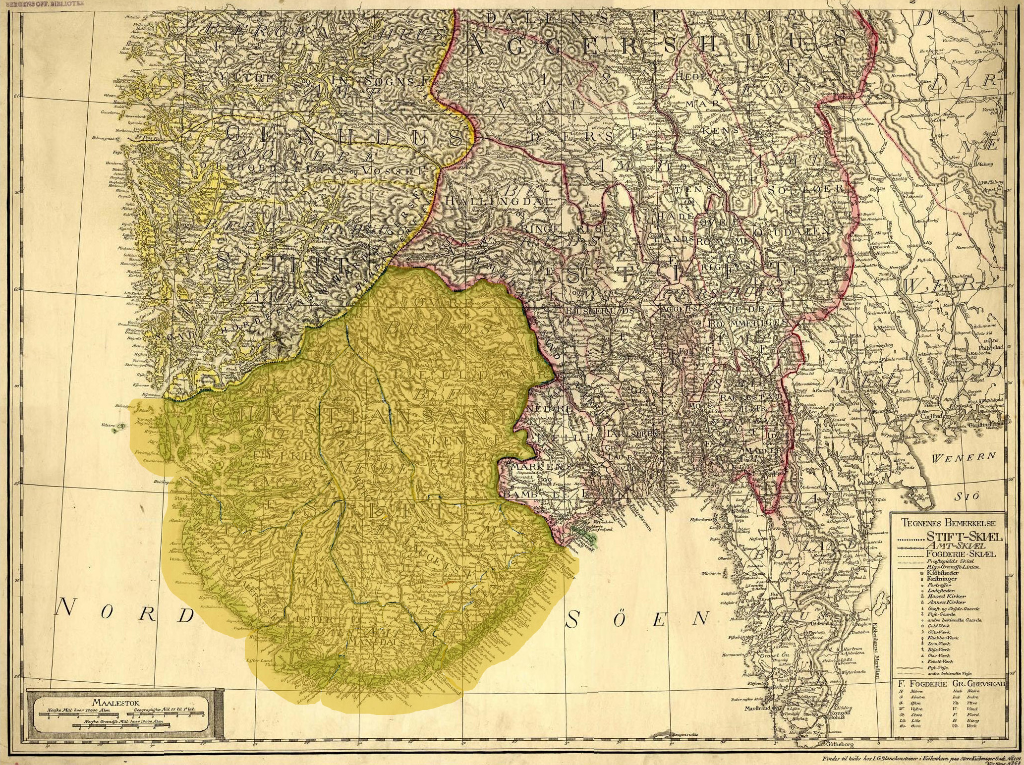 Christiansand stift. Made from Pontoppidan's map from 1785